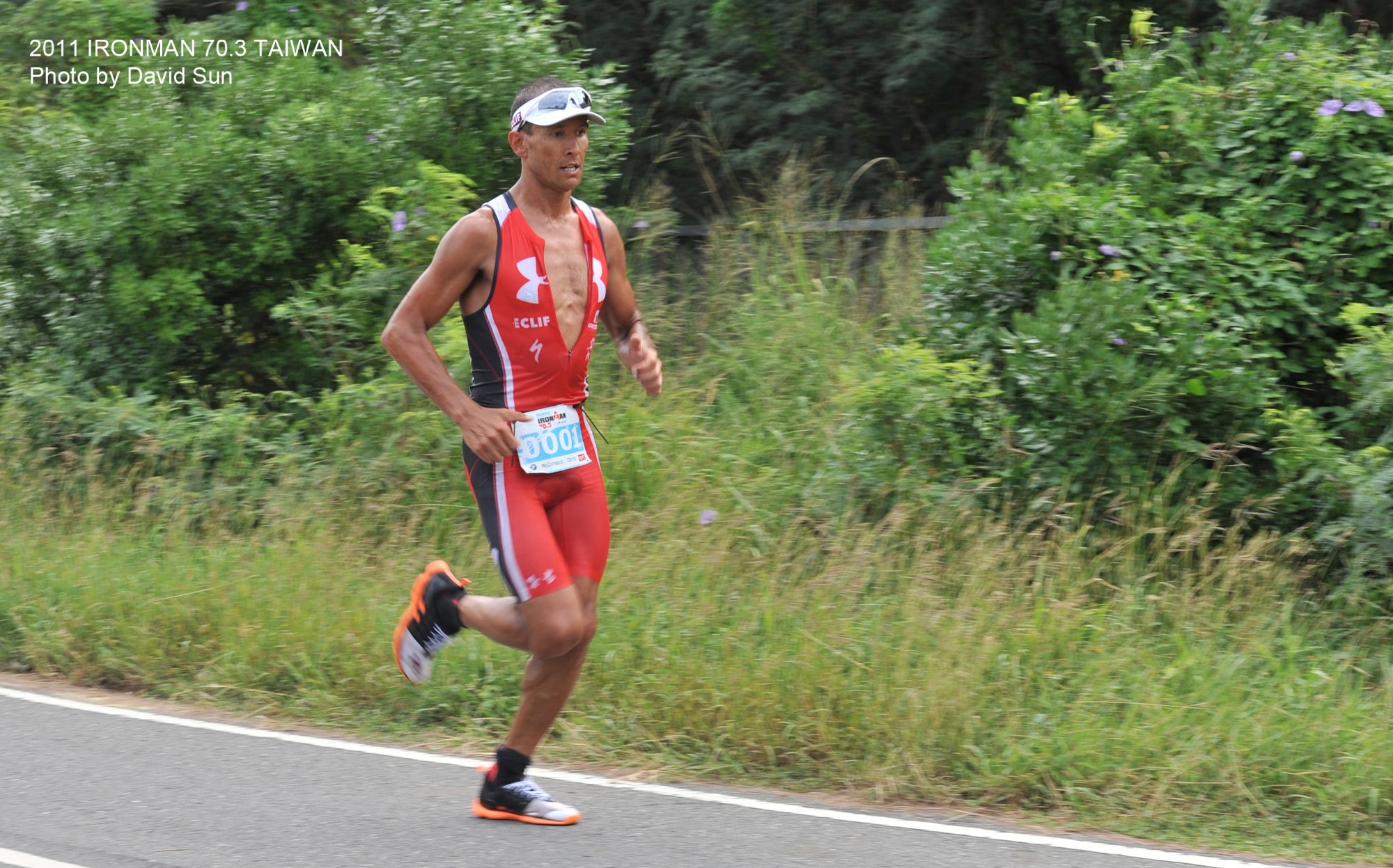 Chris McCormack on the run at Ironman 70.3 Taiwan 2011